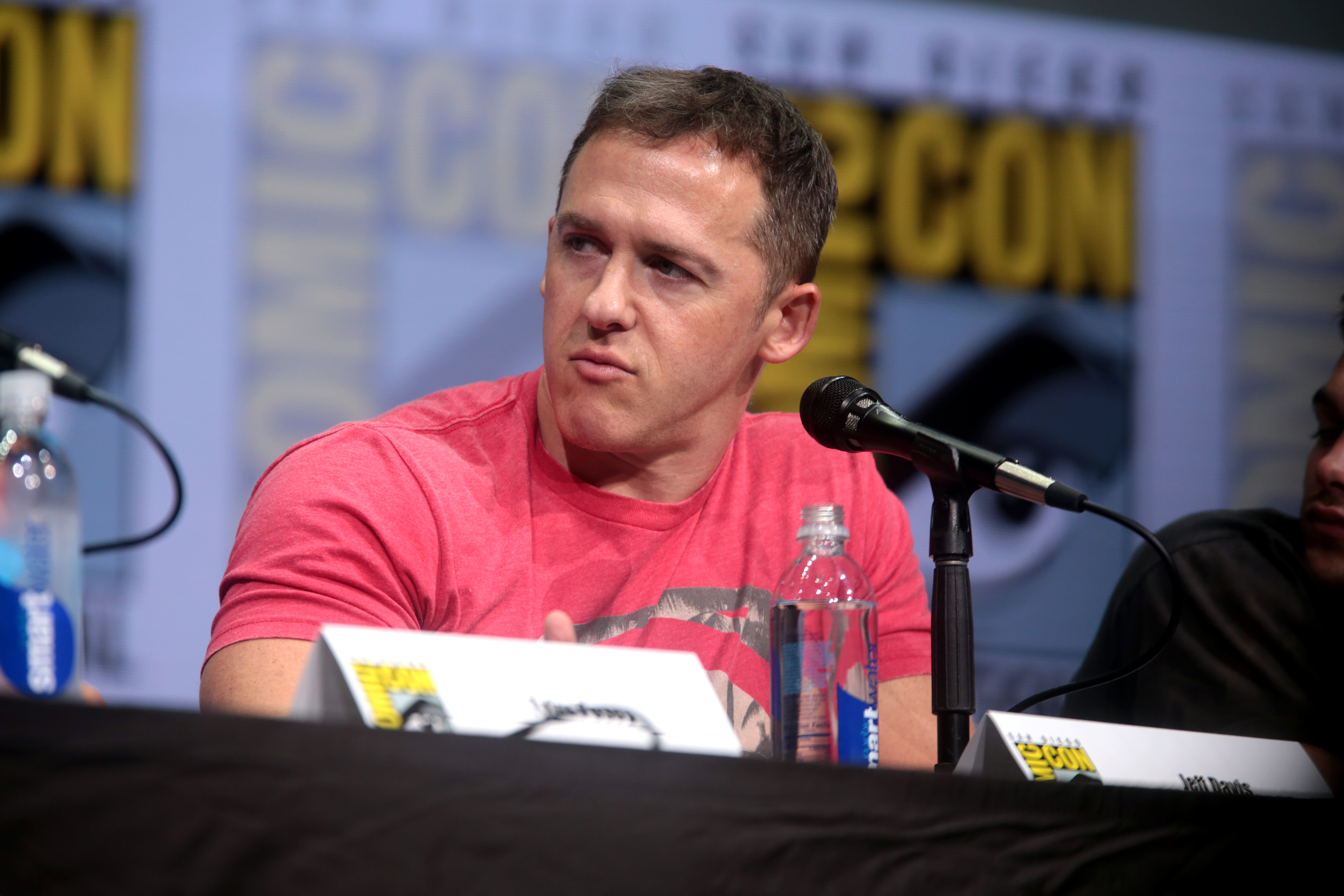 Jeff Davis speaking at the 2017 San Diego Comic Con International, for "Teen Wolf", at the San Diego Convention Center in San Diego, California.